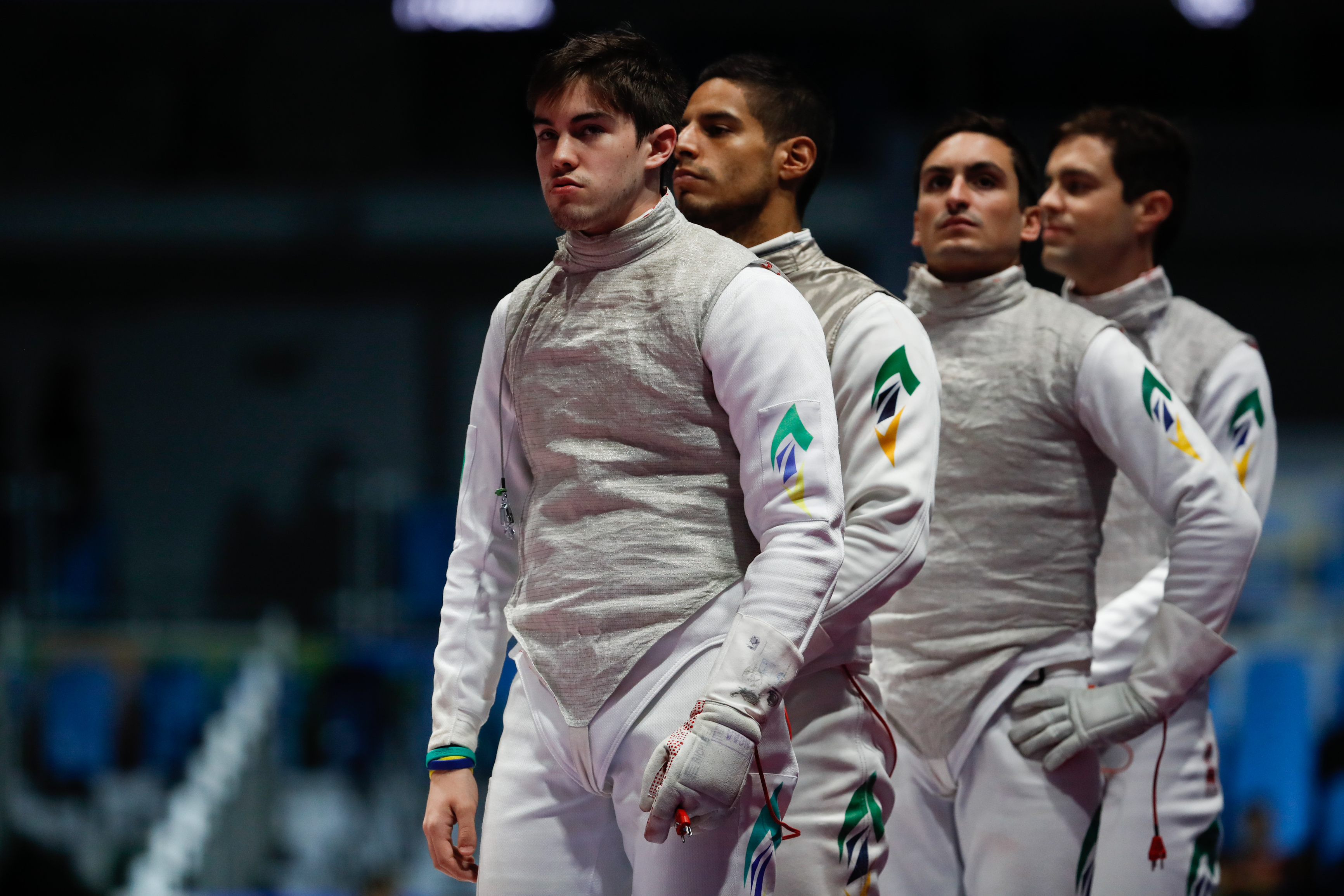 Rio de Janeiro - Equipe brasileira de esgrima perde no florete pata italianos e chineses e termina em 7º lugar nos Jogos Olímpicos Rio 2016. (Fernando Frazão/Agência Brasil)